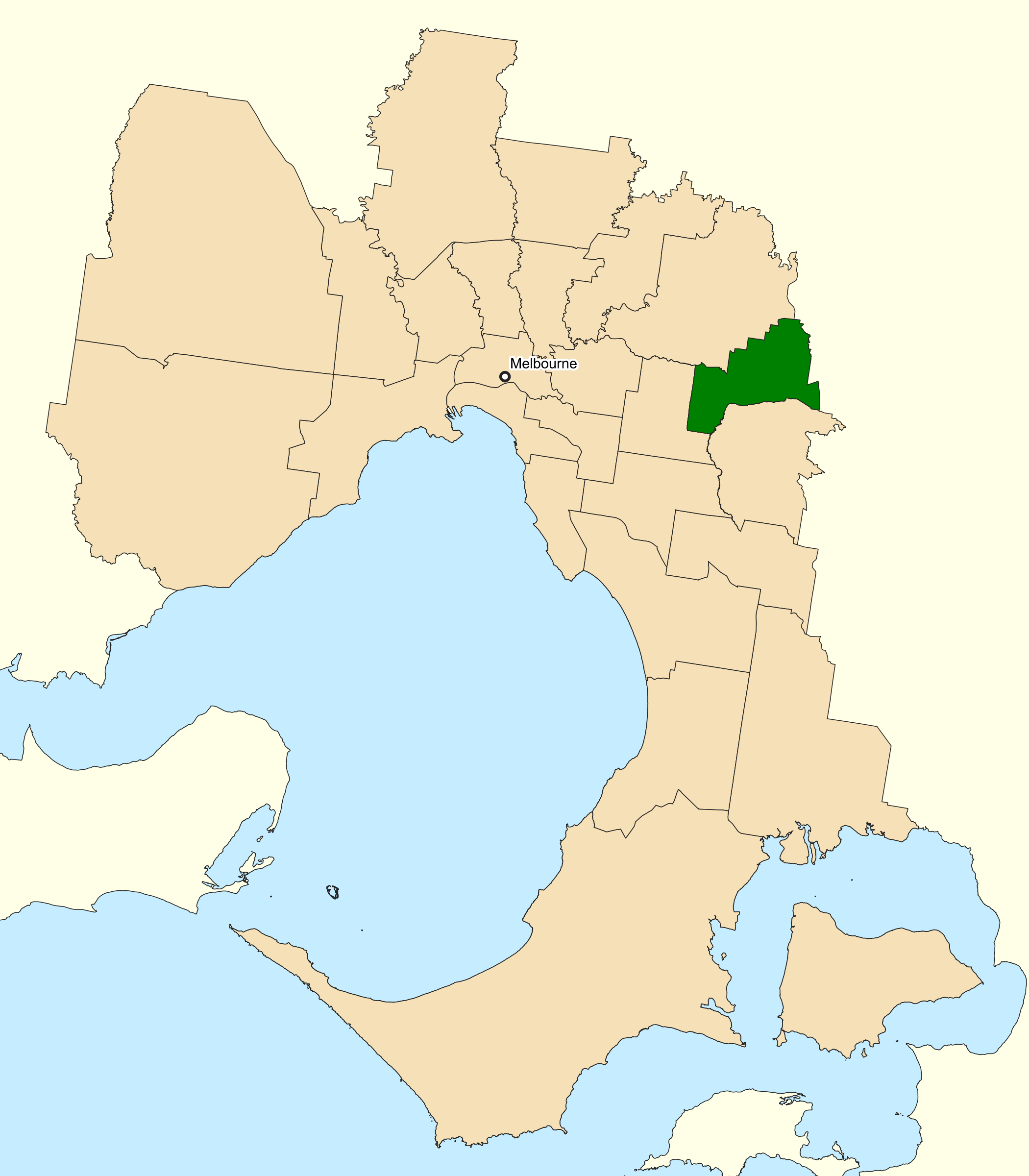 Location of the Australian federal electoral division of Deakin (dark green) in Greater Melbourne, Victoria as of the 2019 Australian federal election. Incorporates or developed using Administrative Boundaries ©PSMA Australia Limited licensed by the Commonwealth of Australia under Creative Commons Attribution 4.0 International licence (CC BY 4.0).